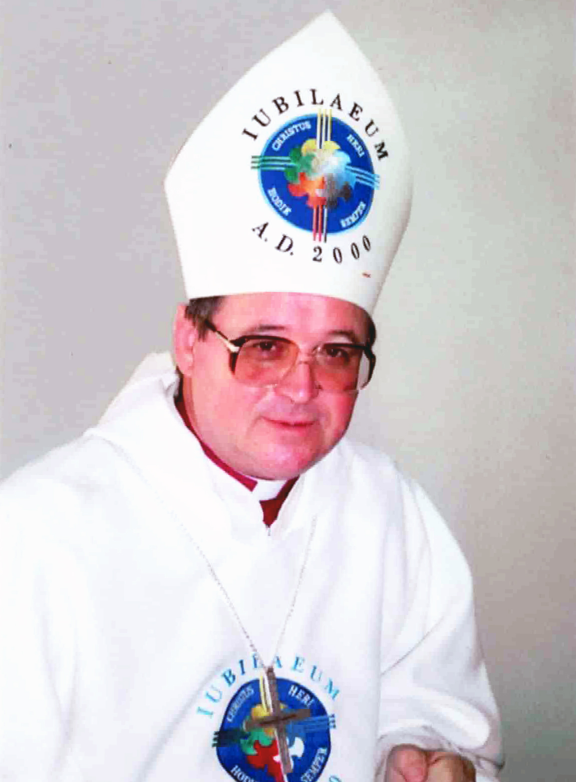 Portrait of the 2nd Bishop of Campo Maior state of Piauí